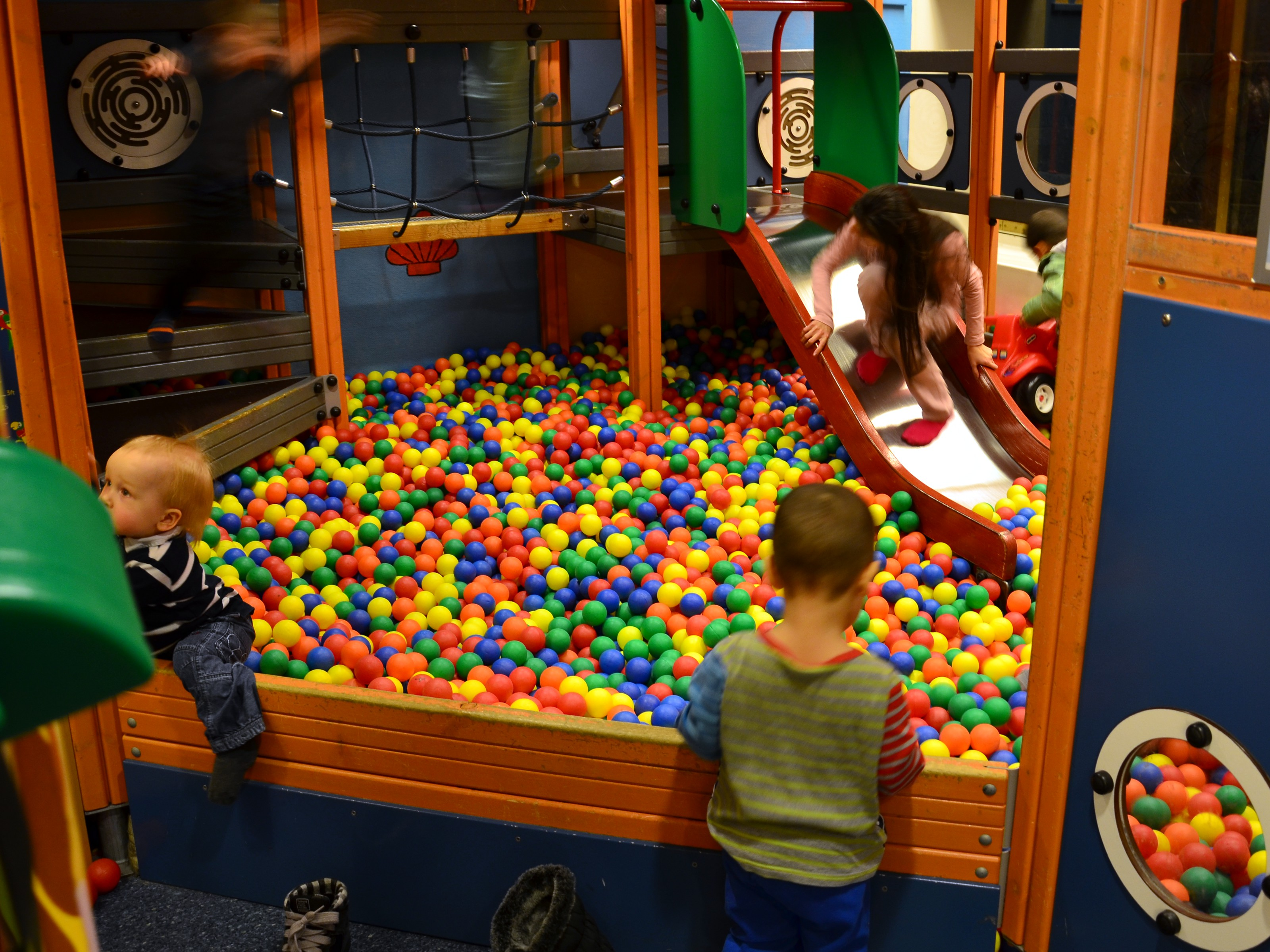 The ball pit in the playroom aboard M/S Gabriella.